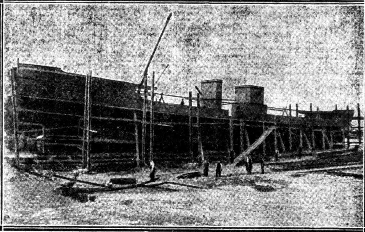 Sydney Ferry BALGOWLAH under construction at Morts Dock, Woolwich, May 1912